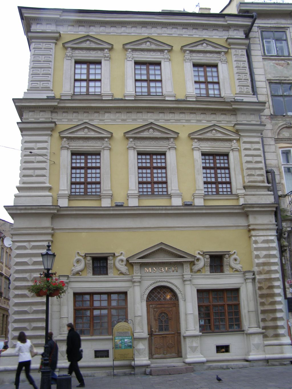 Bandinelli Palace on Rynok Square in Lviv, Ukraine